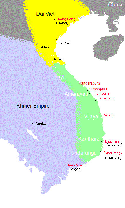 Southeast Asia circa 1100 C.E. showing the approximate areas of control for the Dai-Viet (Vietnam), Champa, and Khmer Empires. Note: Control of the regions away from the coast of Vietnam was more nominal than real except along the Red River. Dai Viet Champa Khmer